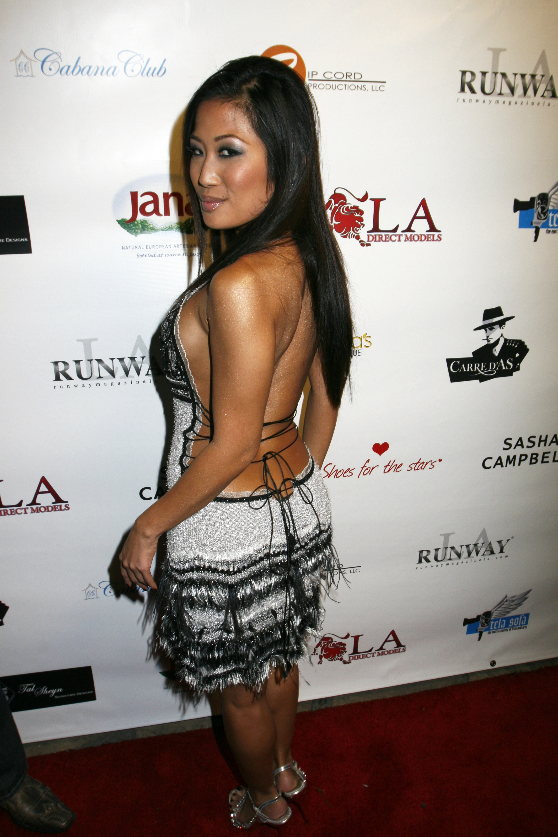 Lena Yada at the first St. Valentine Fashion and Runway Show Fundraiser held at the Cabana Club, Hollywood on February 13 2009. Photo by Brian Raimondi.